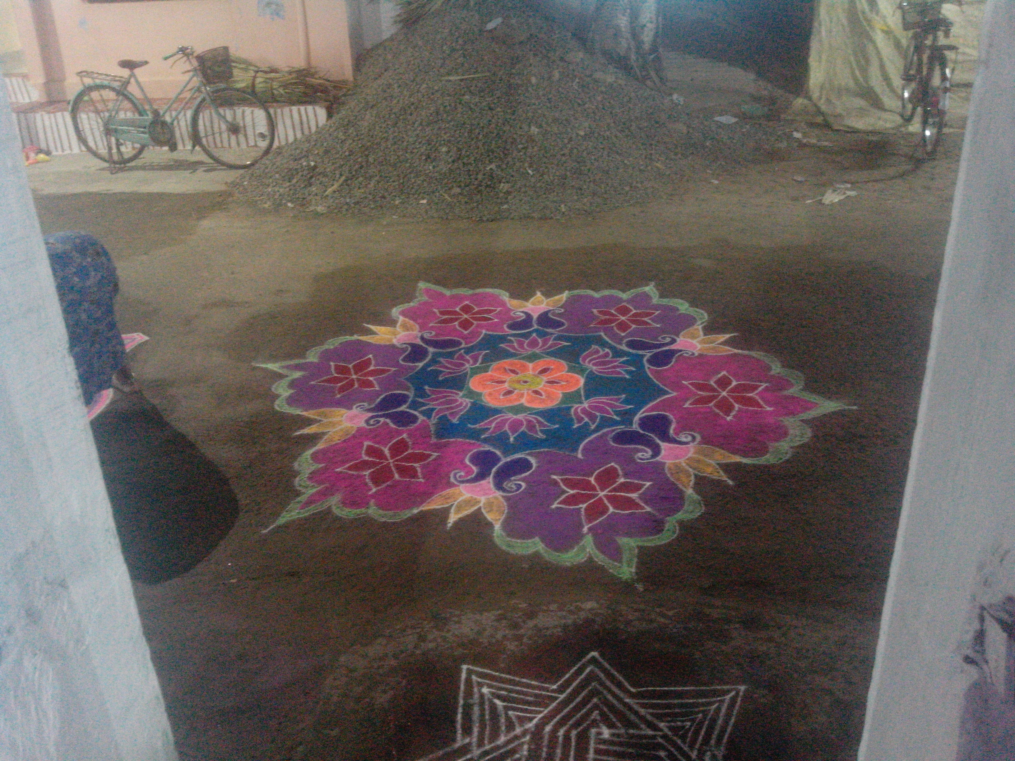 kolam in front of tamil house.